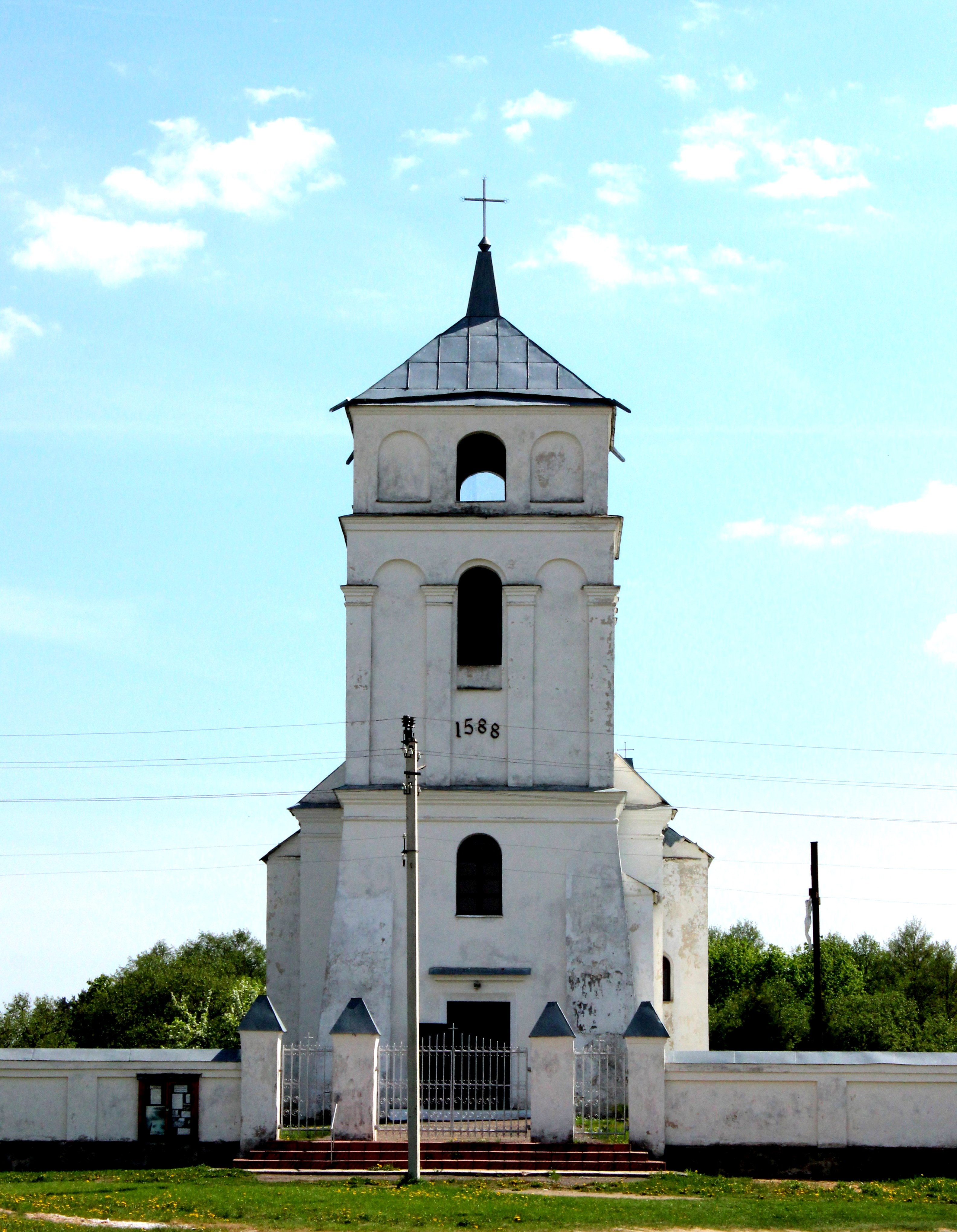 Church of Saints Peter and Paul, New Sverzhan, Stowbtsy Raion, Minsk Region.